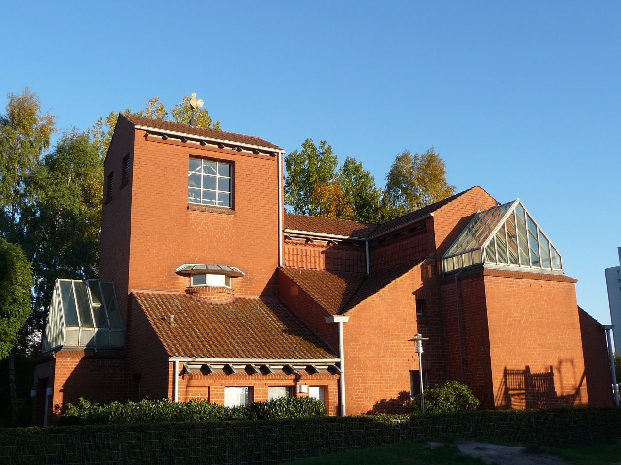 Abraham-Church in Bremen-Kattenturm